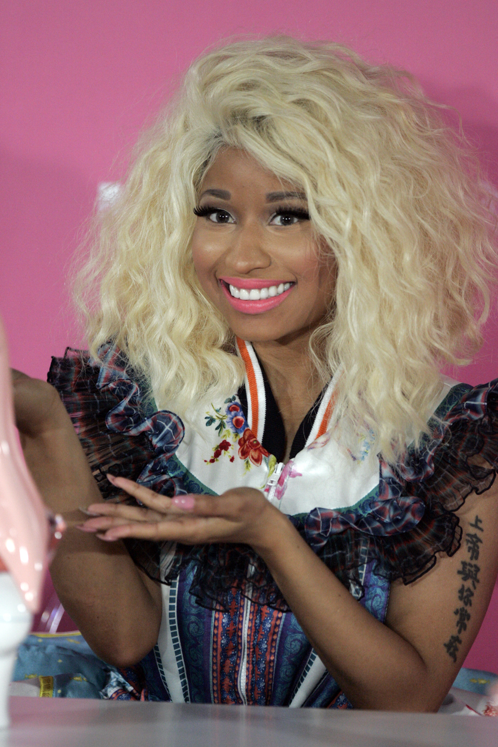 Nicki Minaj Launches Pink Friday Perfume 2012 - Sydney, Australia.